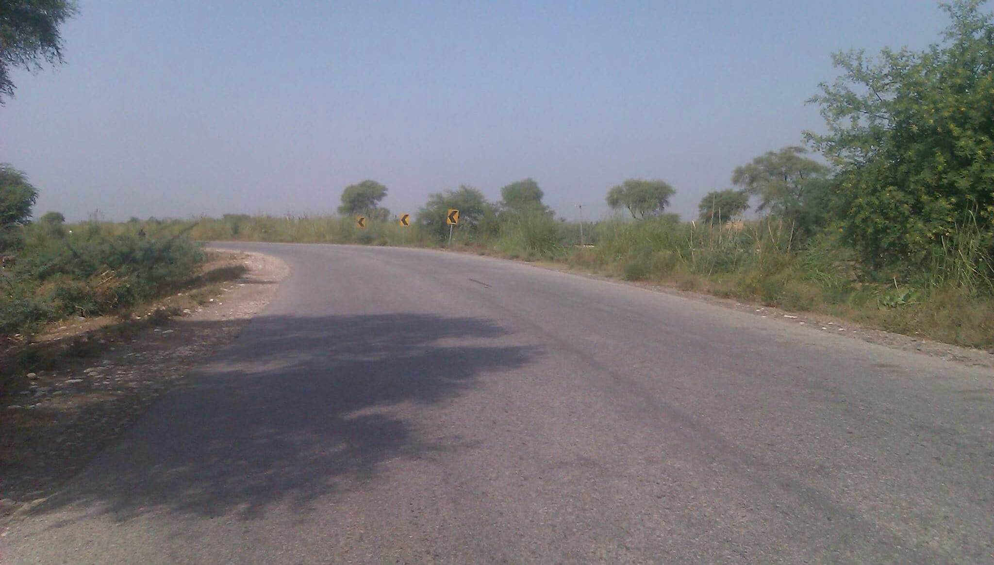 I also Uploaded this Photo on Botala Facebook Page & on website